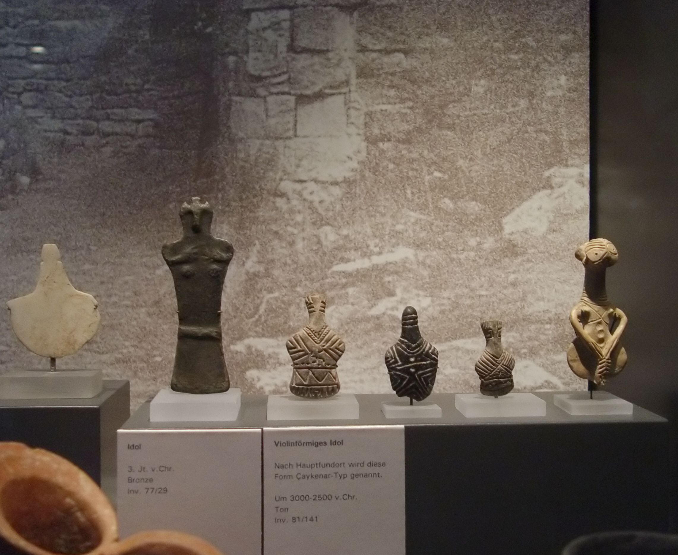 six figurines from Anatolia, Badisches Landesmuseum, Karlsruhe, Germany, Inventory# 71/27, 77/29, 81/41, A24, unknown, 66/139